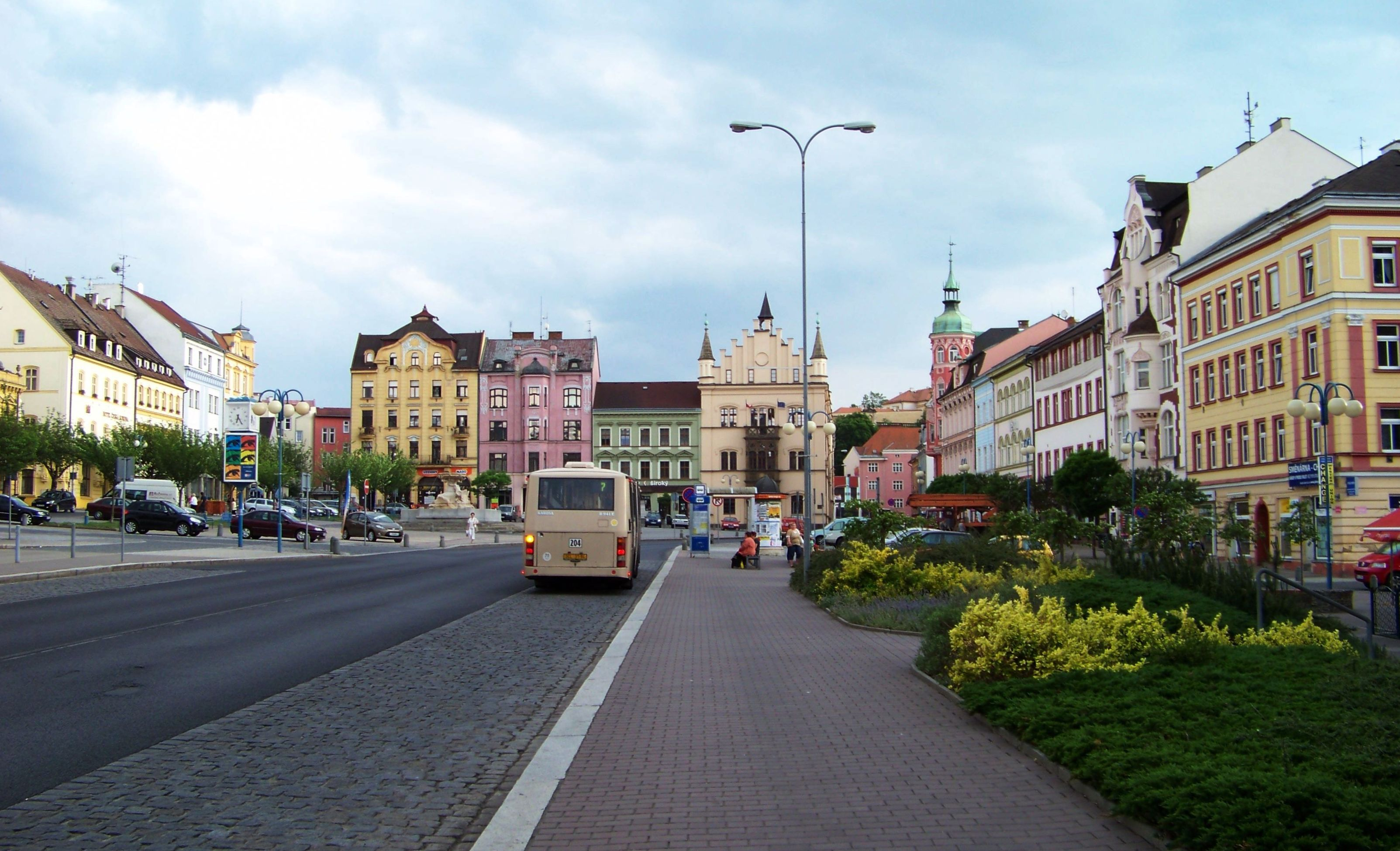 Děčín I-Děčín, Děčín District, Ústí nad Labem Region, the Czech Republic. Masaryk Square.